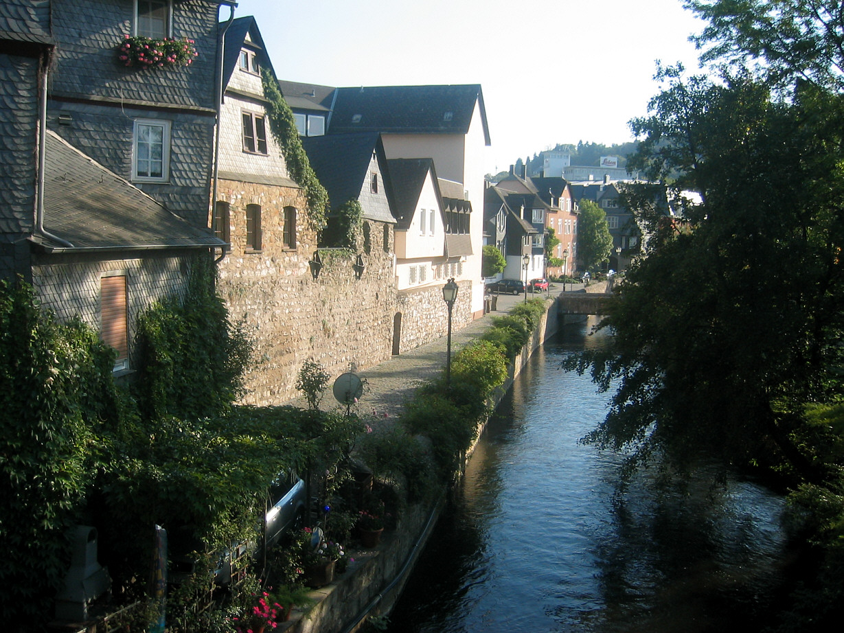 Wetzlar, Germany: Altstadt